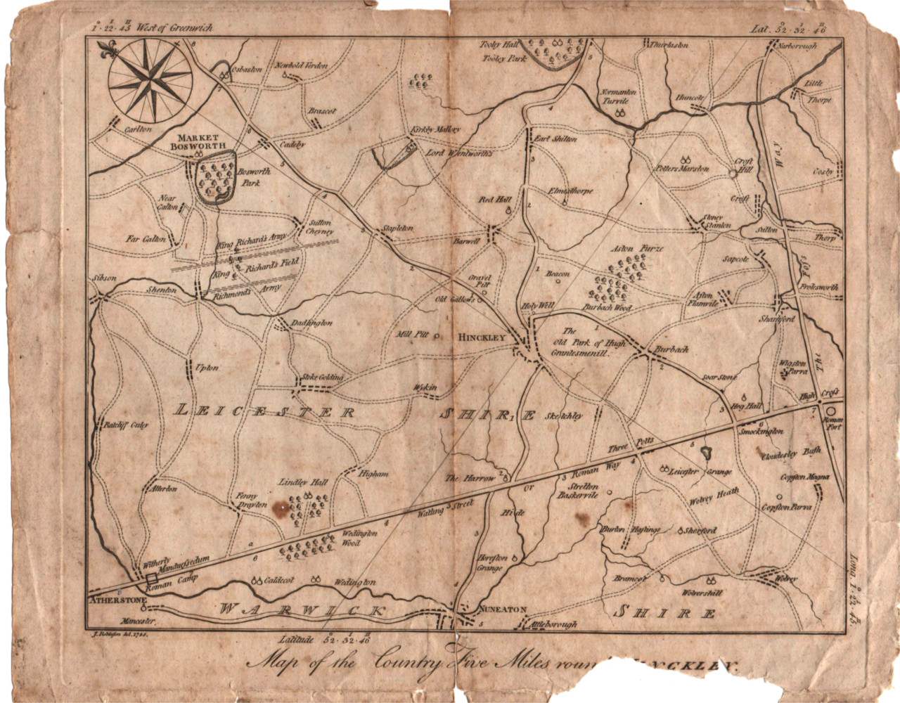 Map of Hinckley, Leicestershire. Engraving dated 1786